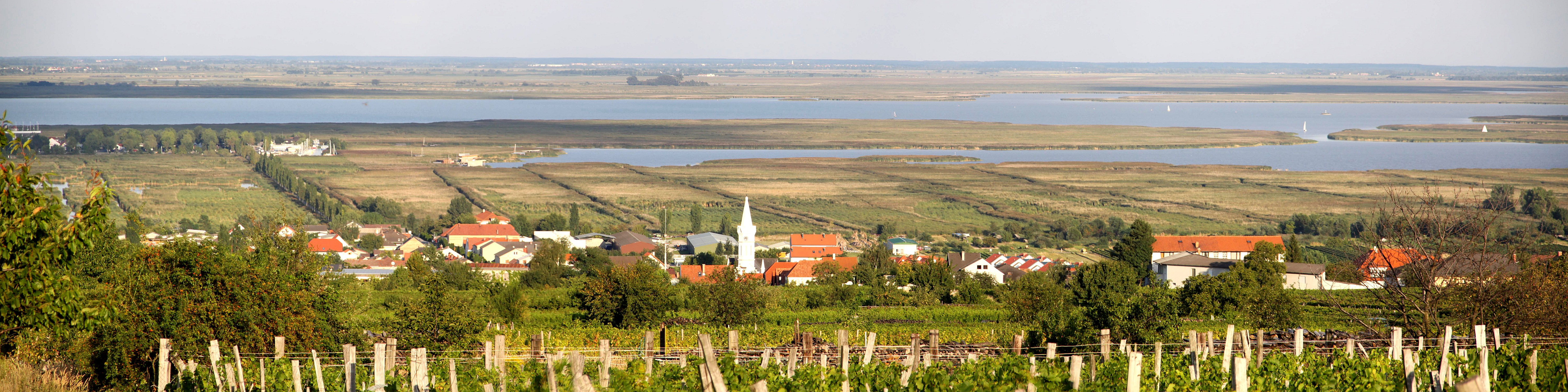 Panoramavies from Mörbisch am See with the Neusiedlersee